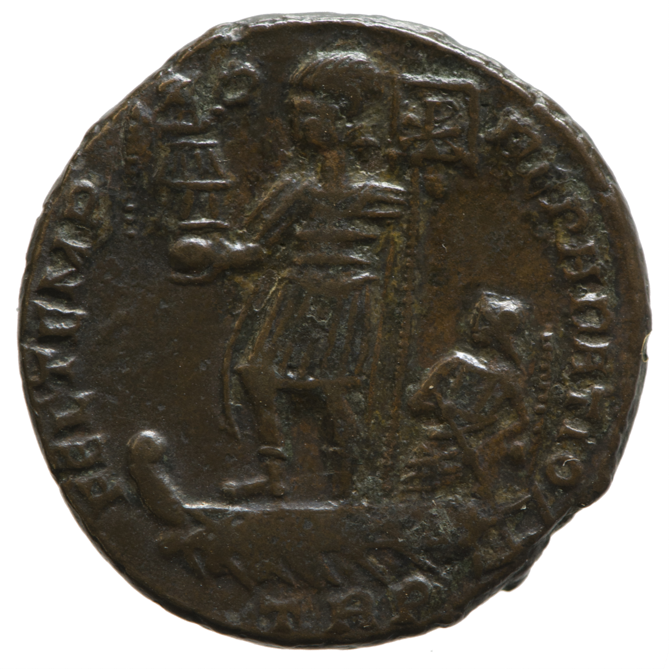 Reverse (back) of a Nummus of w. Constans. Constans standing left on galley holding Victory on globe in right hand and vexillum with chi rho in left hand.